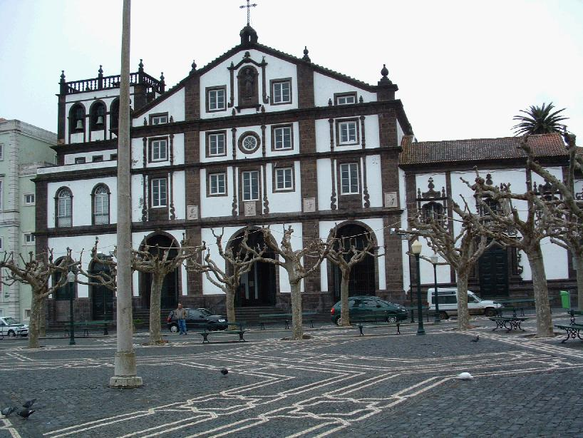 The Church of São José, as seen from across the Campo de São Francisco, São José, Ponta Delgada, São Miguel (Azpres), Portugal